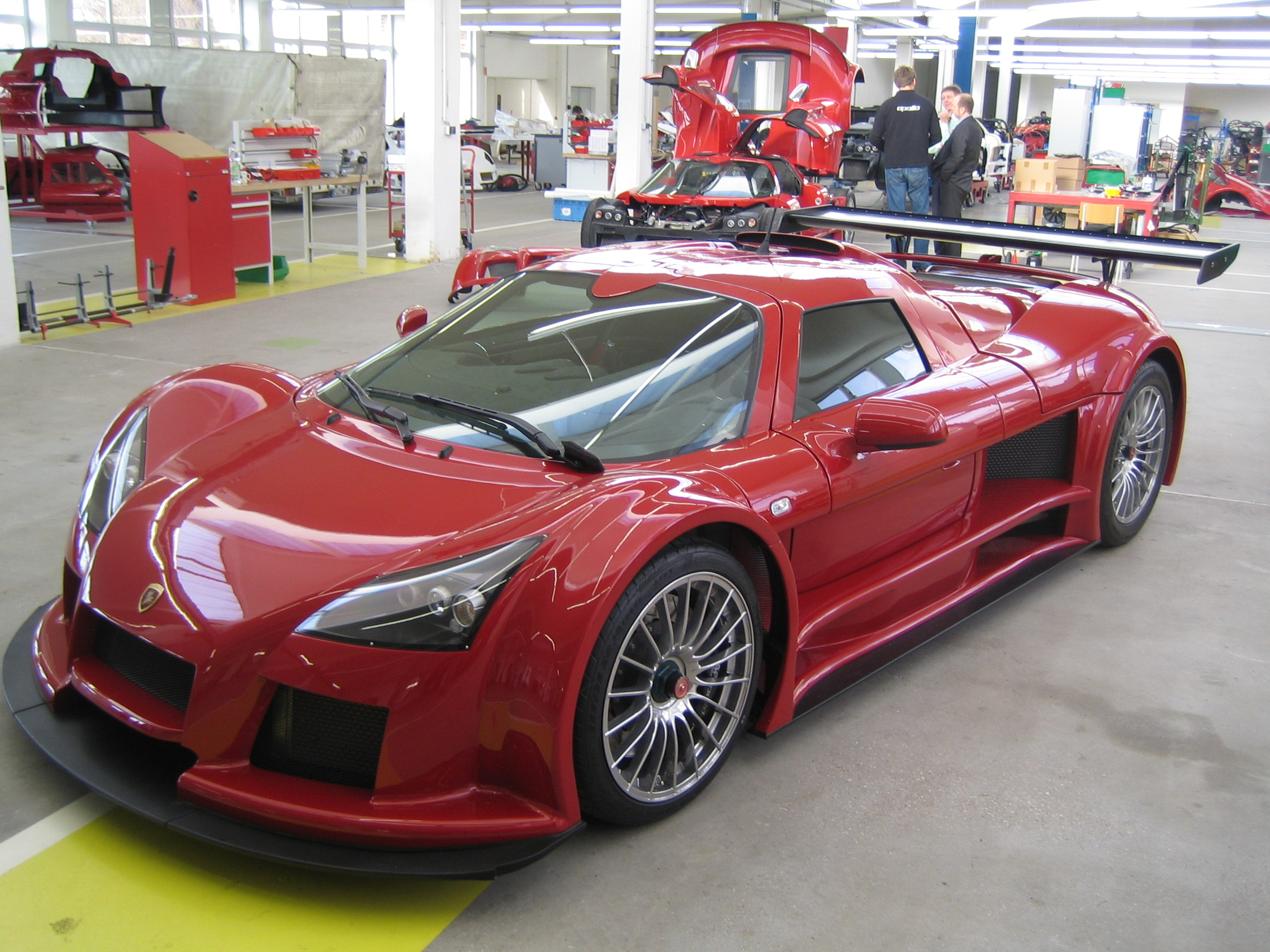 Gumpert factory